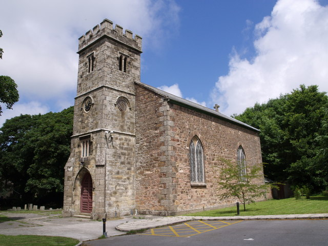 St Illogan's chapel, Trevenson, Cornwall, seen from the south. Built as a chapel-of-ease to Illogan and completed in 1809. The windows have iron tracery.